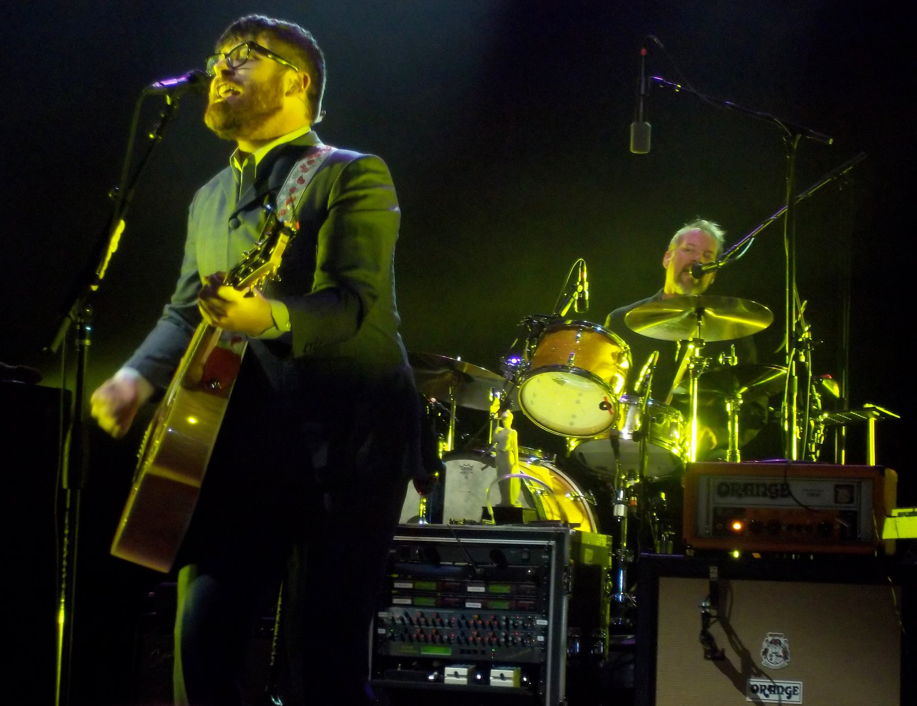 The Decemberists perform at Merriweather Post Pavillion in Columbia, Maryland in June 2011